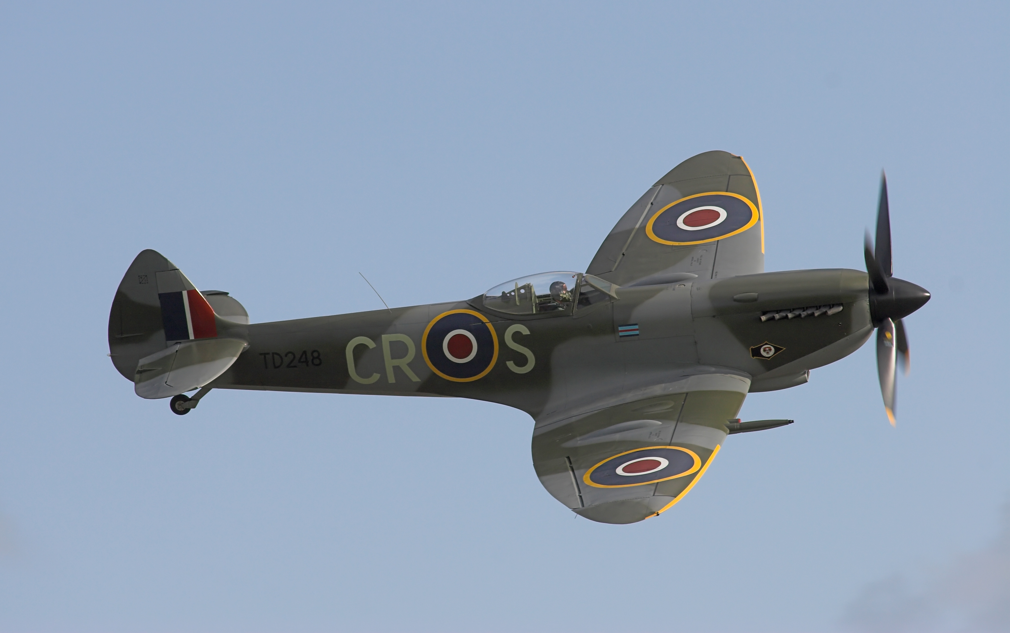 Supermarine Spitfire XVI at Duxford, September 2006